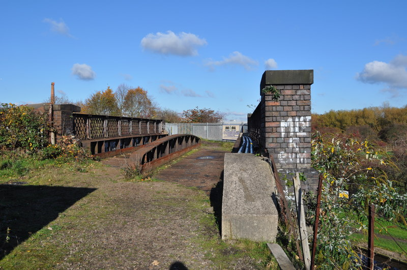 Bridge over the Grand Union Canal, near to Loughborough, Leicestershire, Great Britain. See SK5419 : Grand Union Canal in Loughborough . This bridge is the first restoration project required in 'the gap'. SK5420 : The Gap